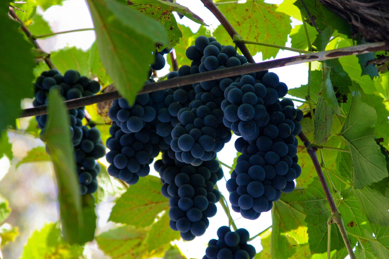 Grapes: Alvani, Republic of Georgia